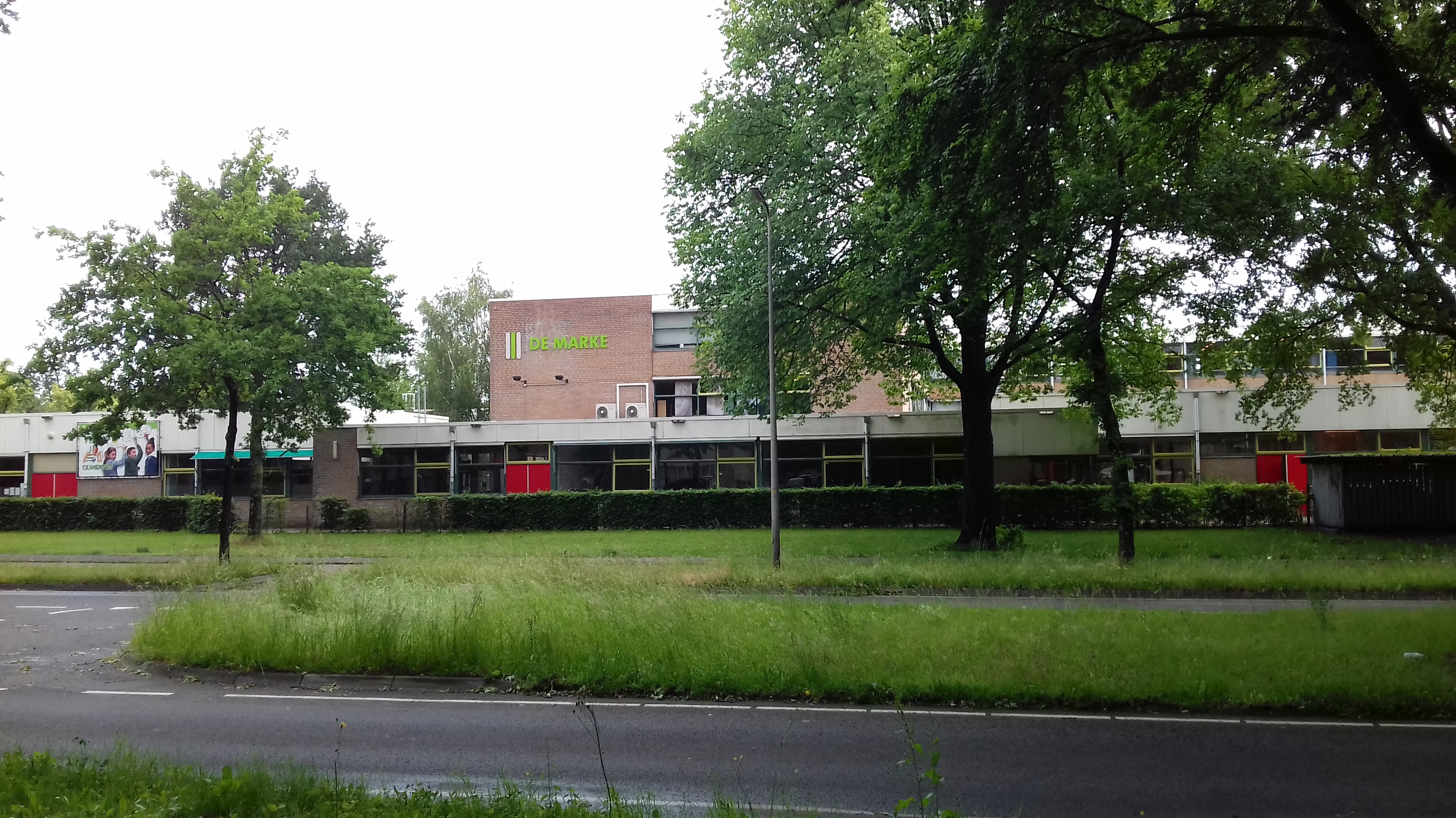 School building of the Etty Hillesum Lyceum location De Marke North in Deventer, The Netherlands